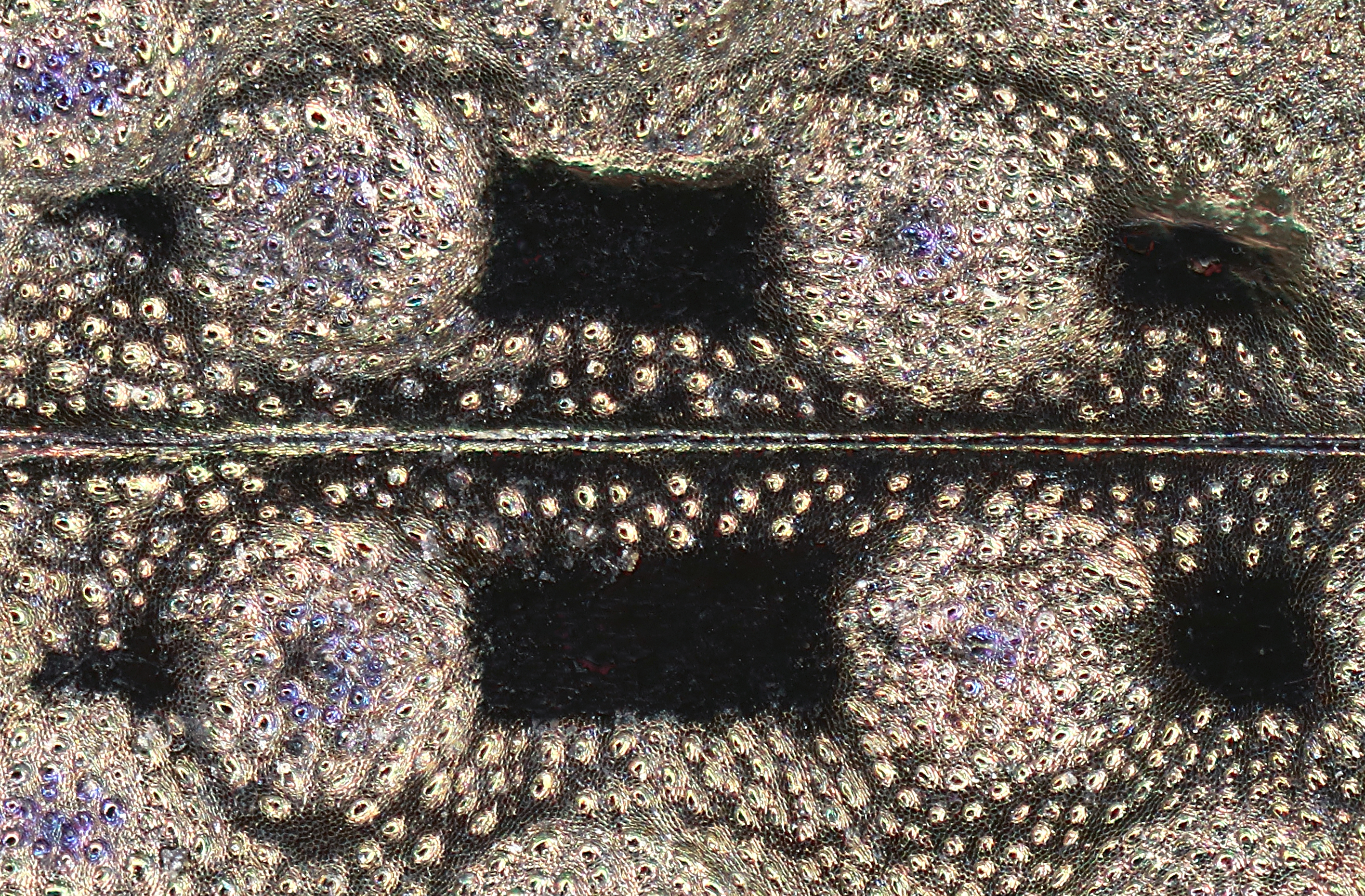 Detail of central area of elytra of Elaphrus aureus magnification 5x, stack of 25 pictures